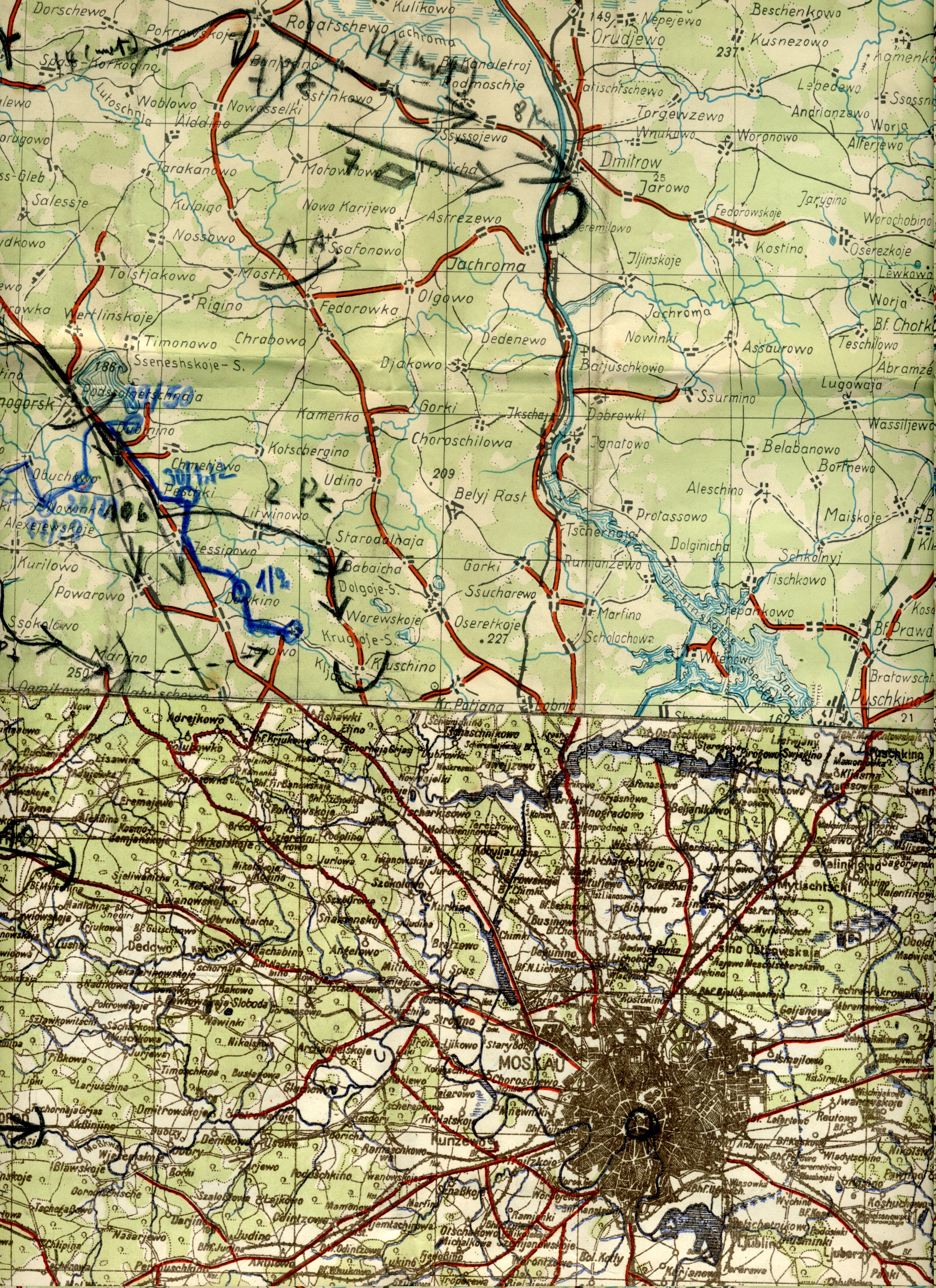 This is the map Hans von Luck used during the advance on Moscow [Moskau] during World War Two WWII [WK2]. It details the limit of his advance to a small village called Jachroma. Von Luck gives an account of this advance in his memoirs "Panzer Commander". The maps shows the furthest advance of the German Army [Heer] toward Moscow. The map was constructed from several German maps which were joined together.